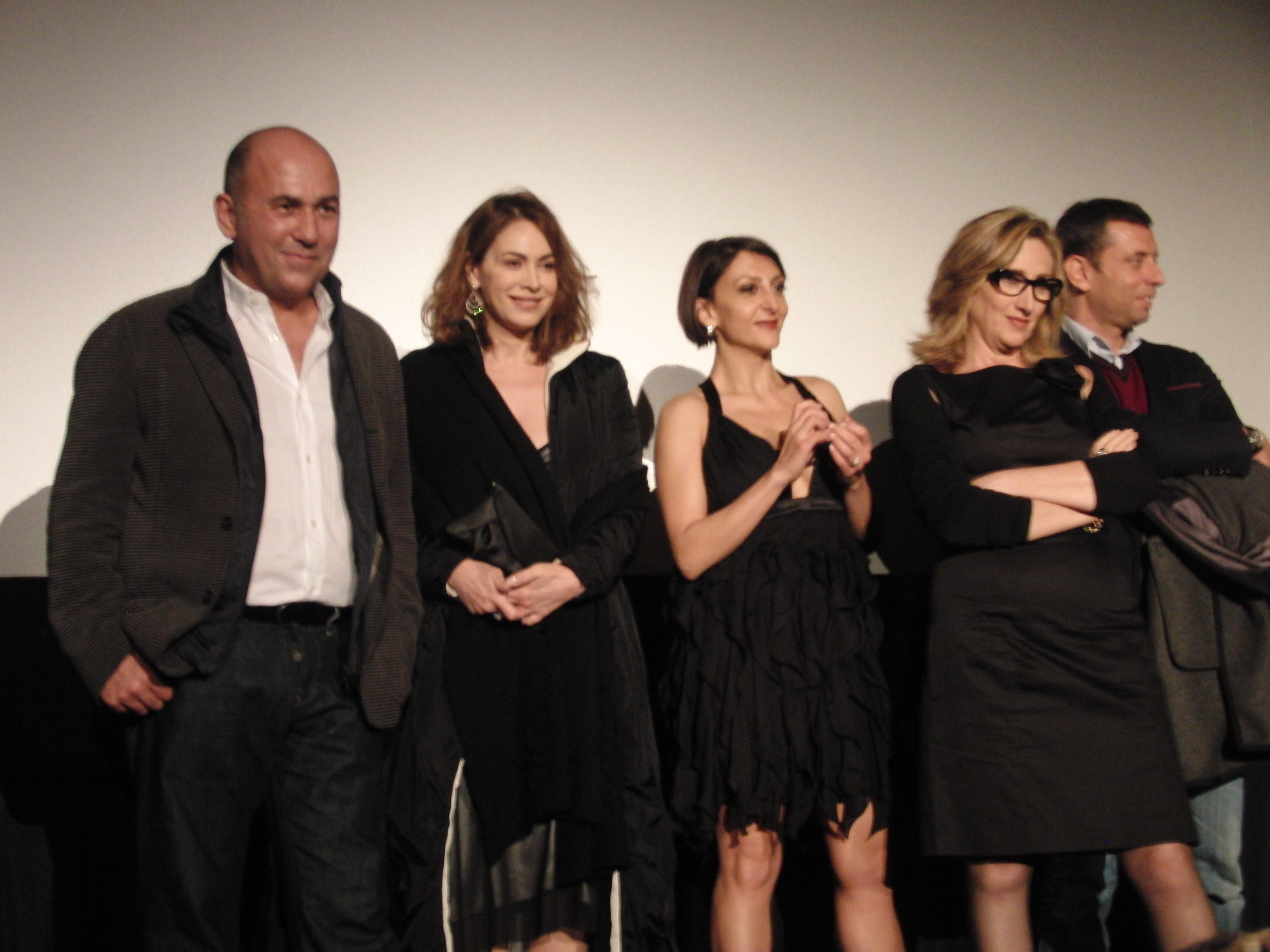 Cast of Loose Cannons at 2010 Tribeca Film Festival